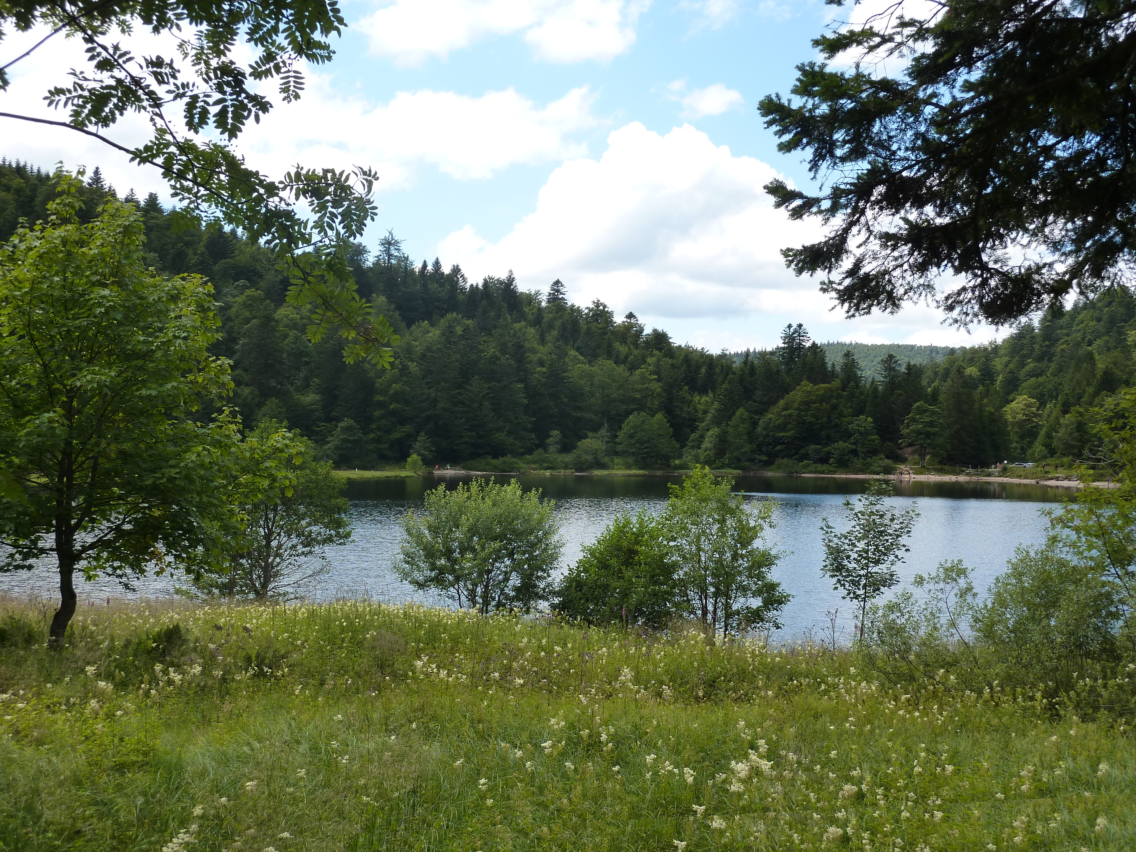 View on the Blanchemer Lake.